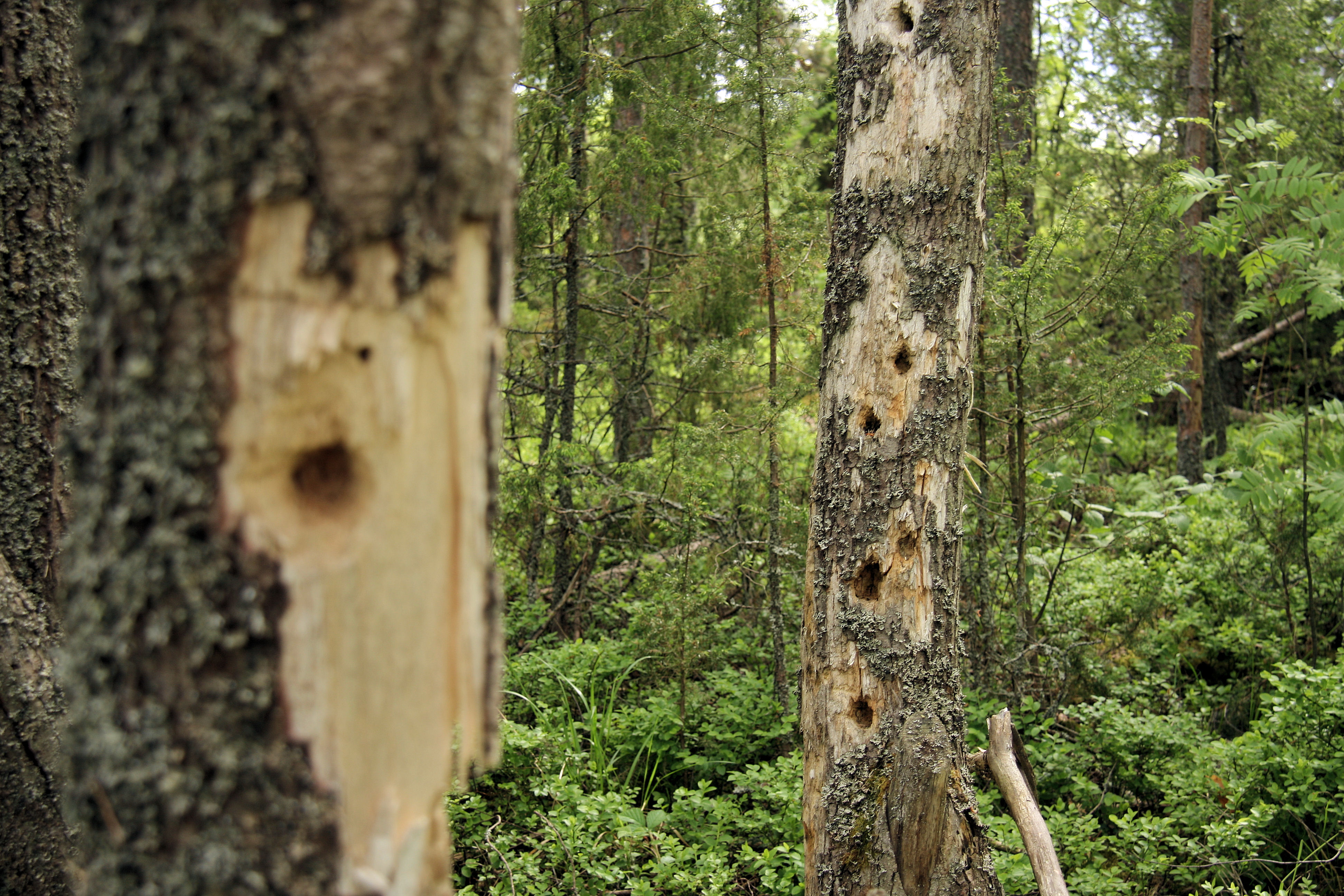 Woodpecker holes in a tree, Ristiina, Savonia, Finland.